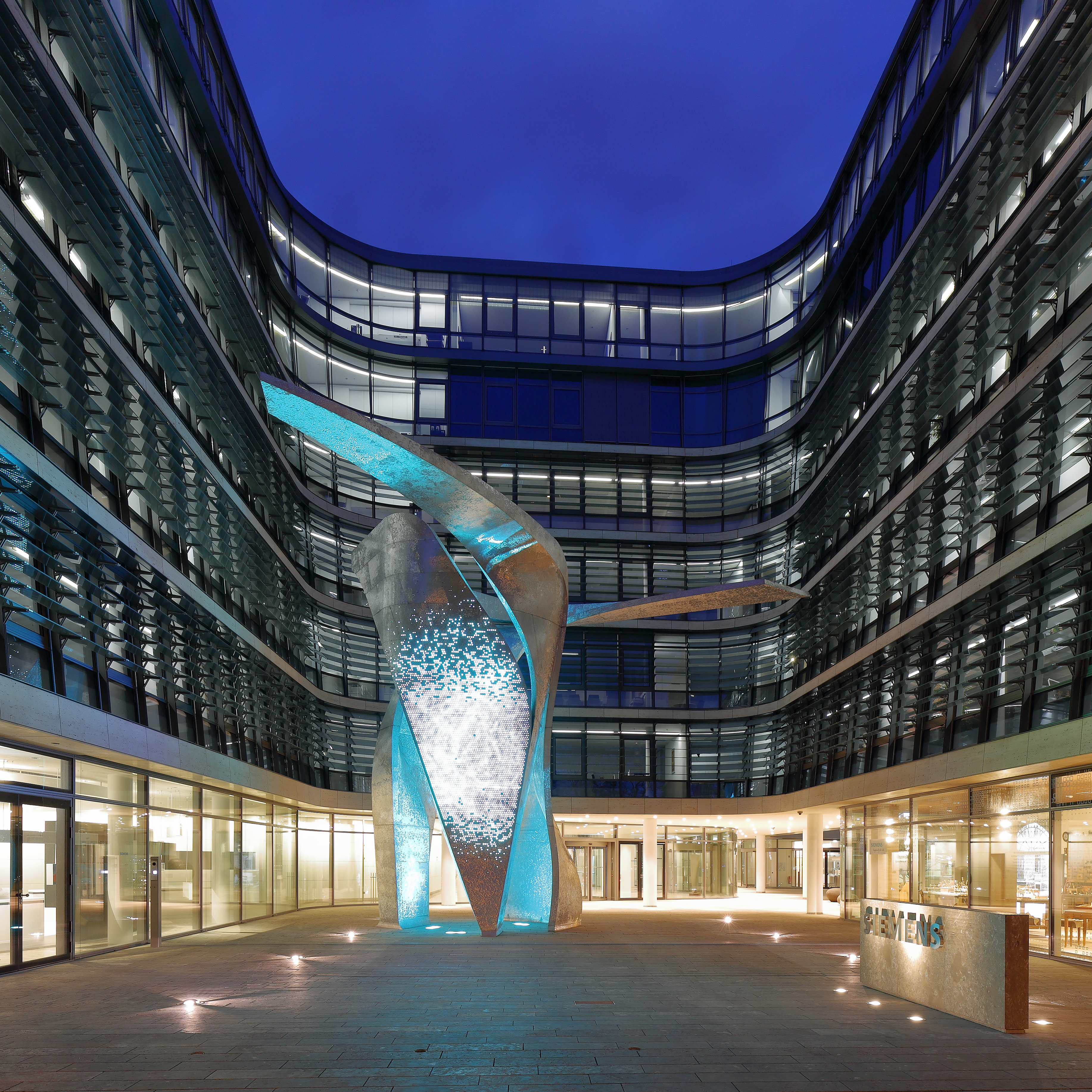 "The Wings" by Studio Libeskind, a sculpture and light installation erected in 2016 for the newly built Siemens headquarters in Munich, Germany.